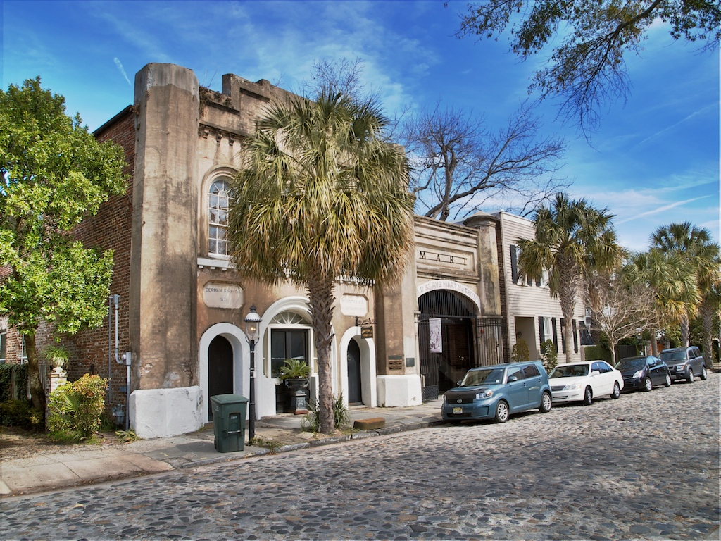 Front of Old Slave Mart Museum, Charleston, SC. HDR Image